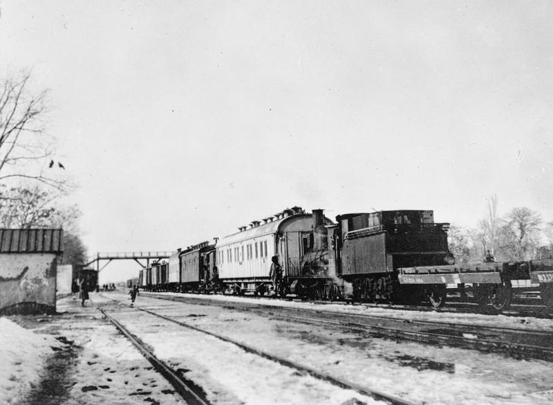 Railway station at the city of Ashgabat, Turkmenistan.